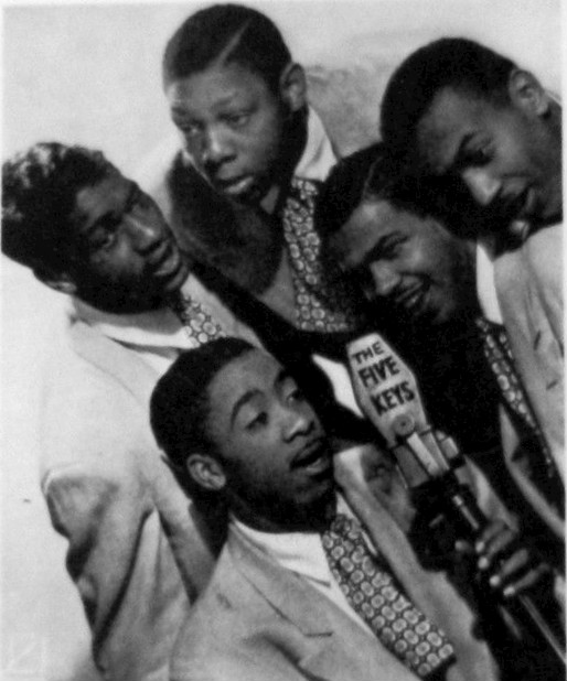 Photo of the vocal group The Five Keys.